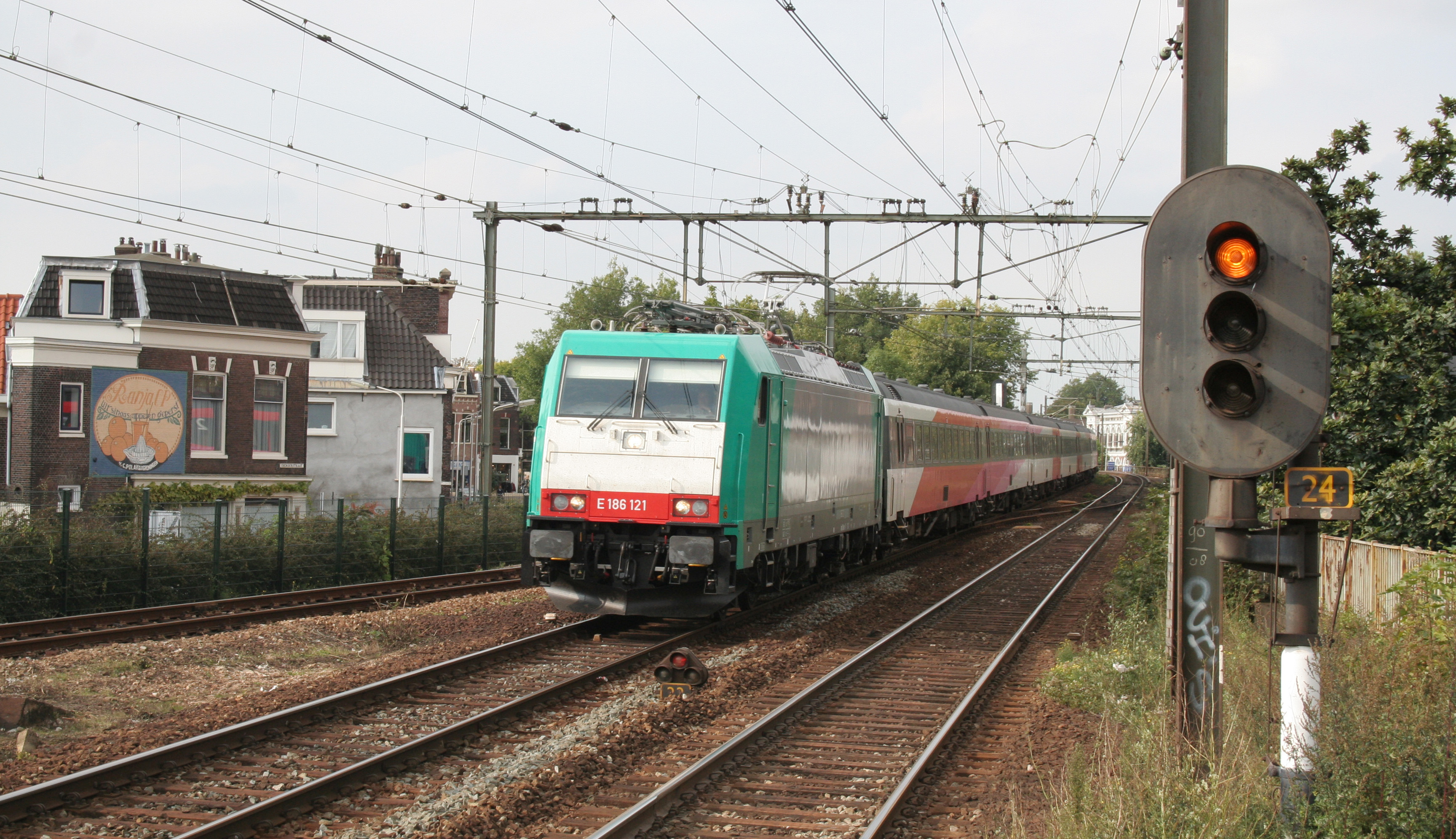 E186 121 heads a "Benelux" train into Delft. These locomotive have started to operate these trains in place of the SNCB Class 11s.